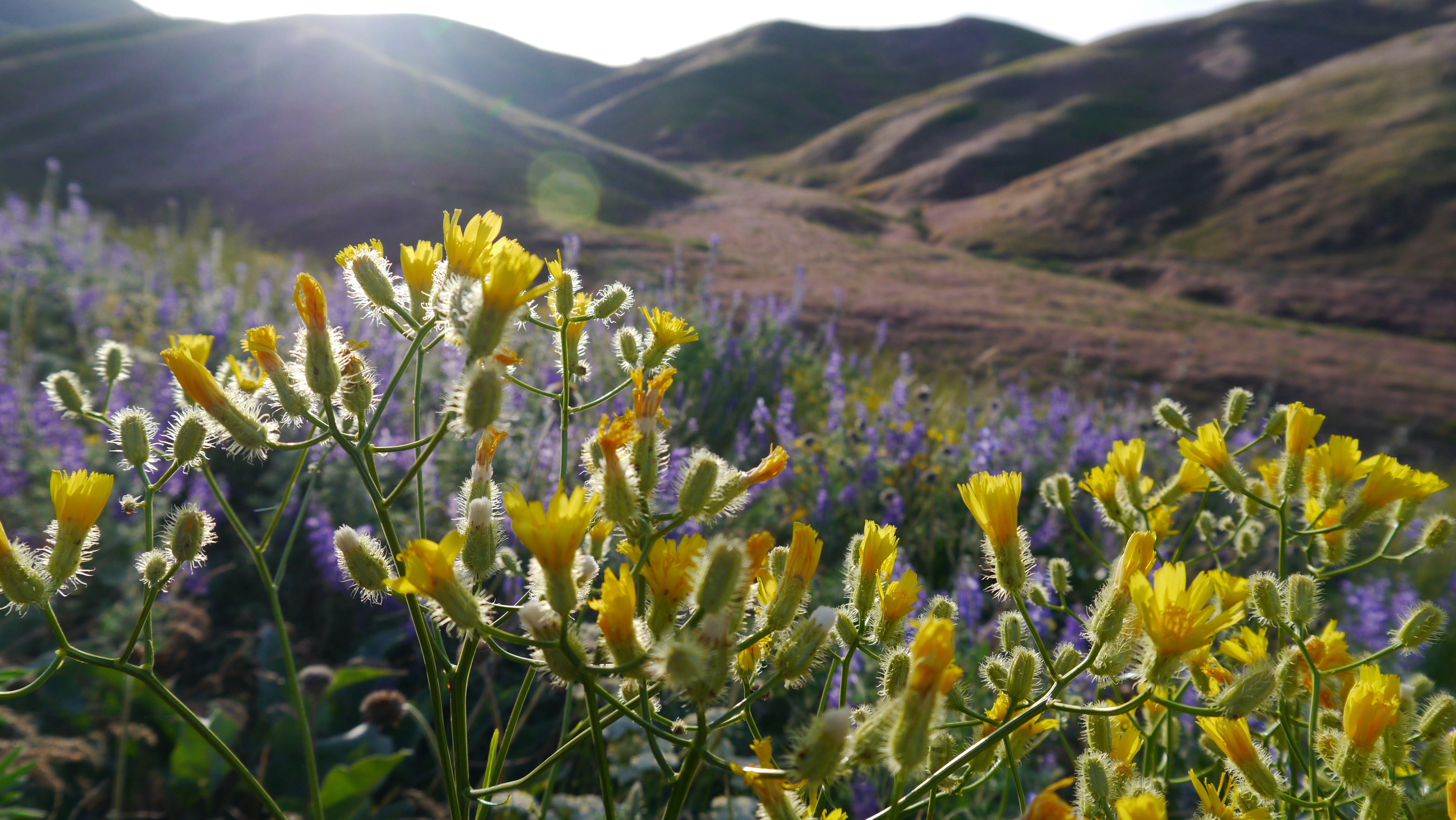 Crepis barbigera in the Wenatchee foothills, Chelan County Washington